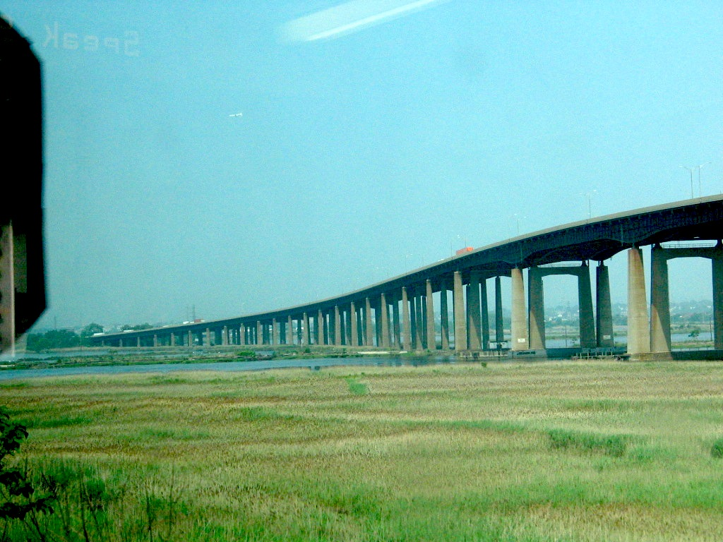 New Jersey turnpike is laid on estacade over the Swamp, around exit 15. Very close to New York City.